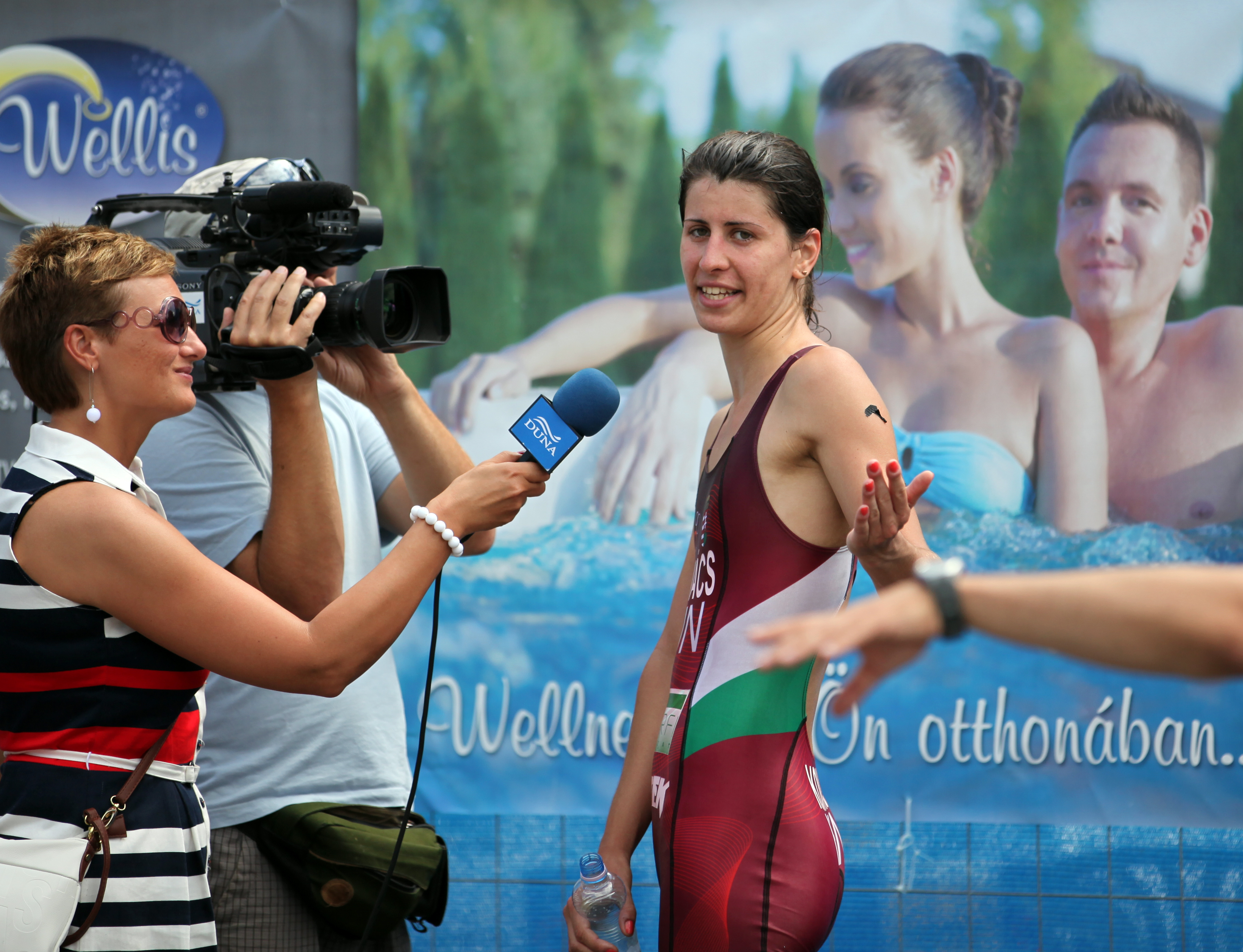 Zsófia Kovács after the World Cup elite triathlon in Tiszaújváros, 2011.